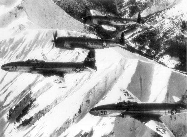 F-80s and F-47s of the 36th and 86th Fighter Wings over Germany.